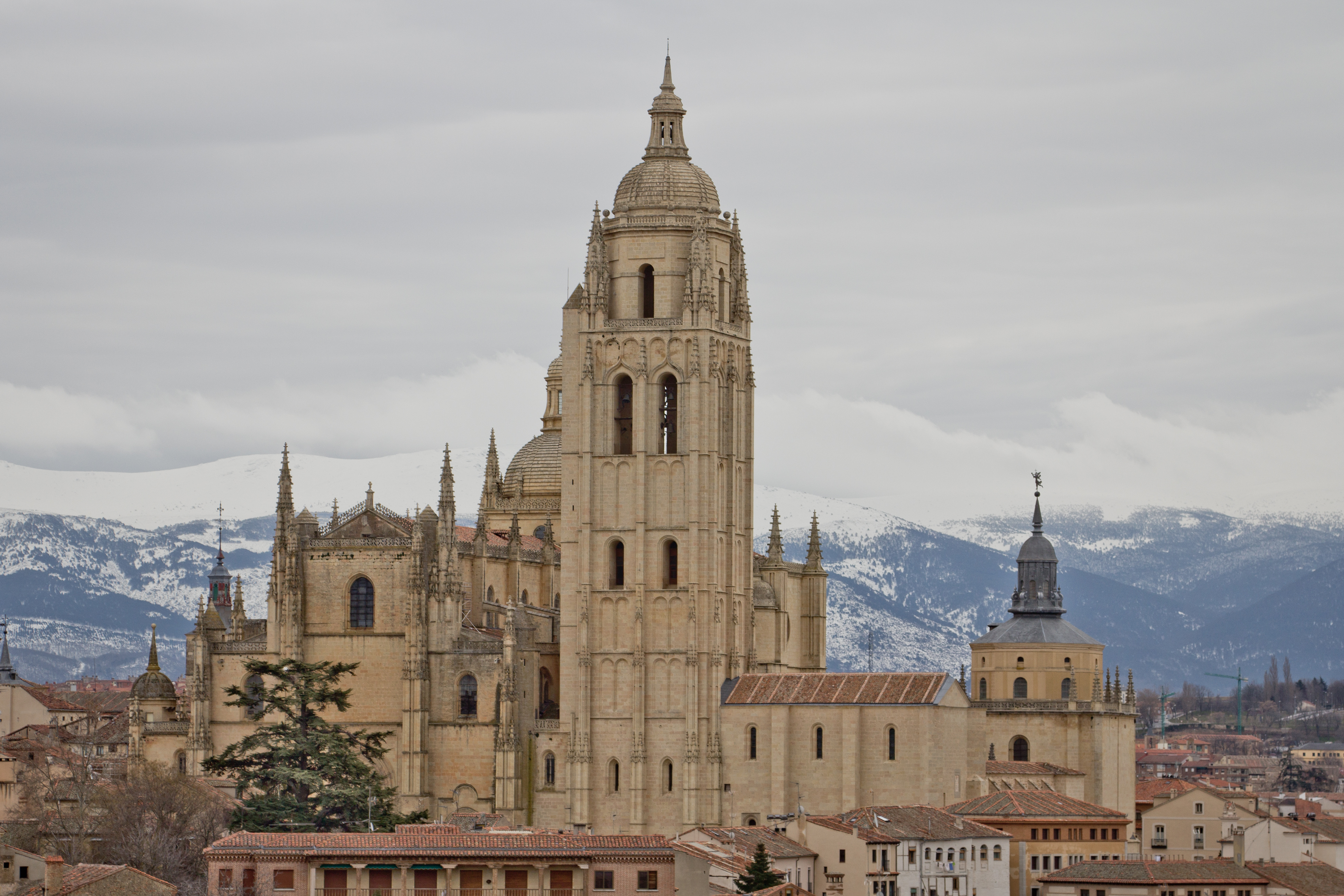 cathedral of St. Mary, Segovia, Spain.